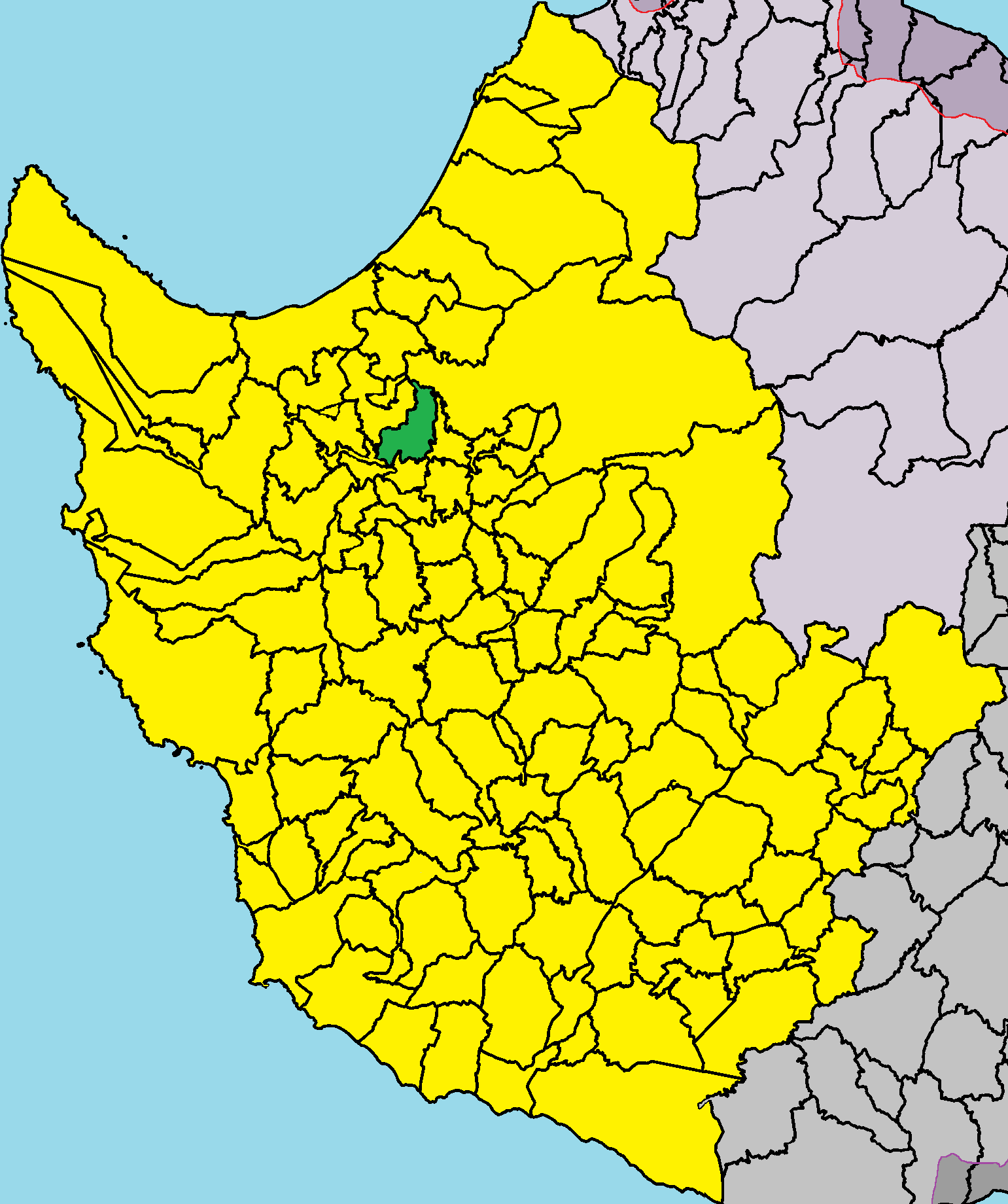 Peristerona in Paphos District.